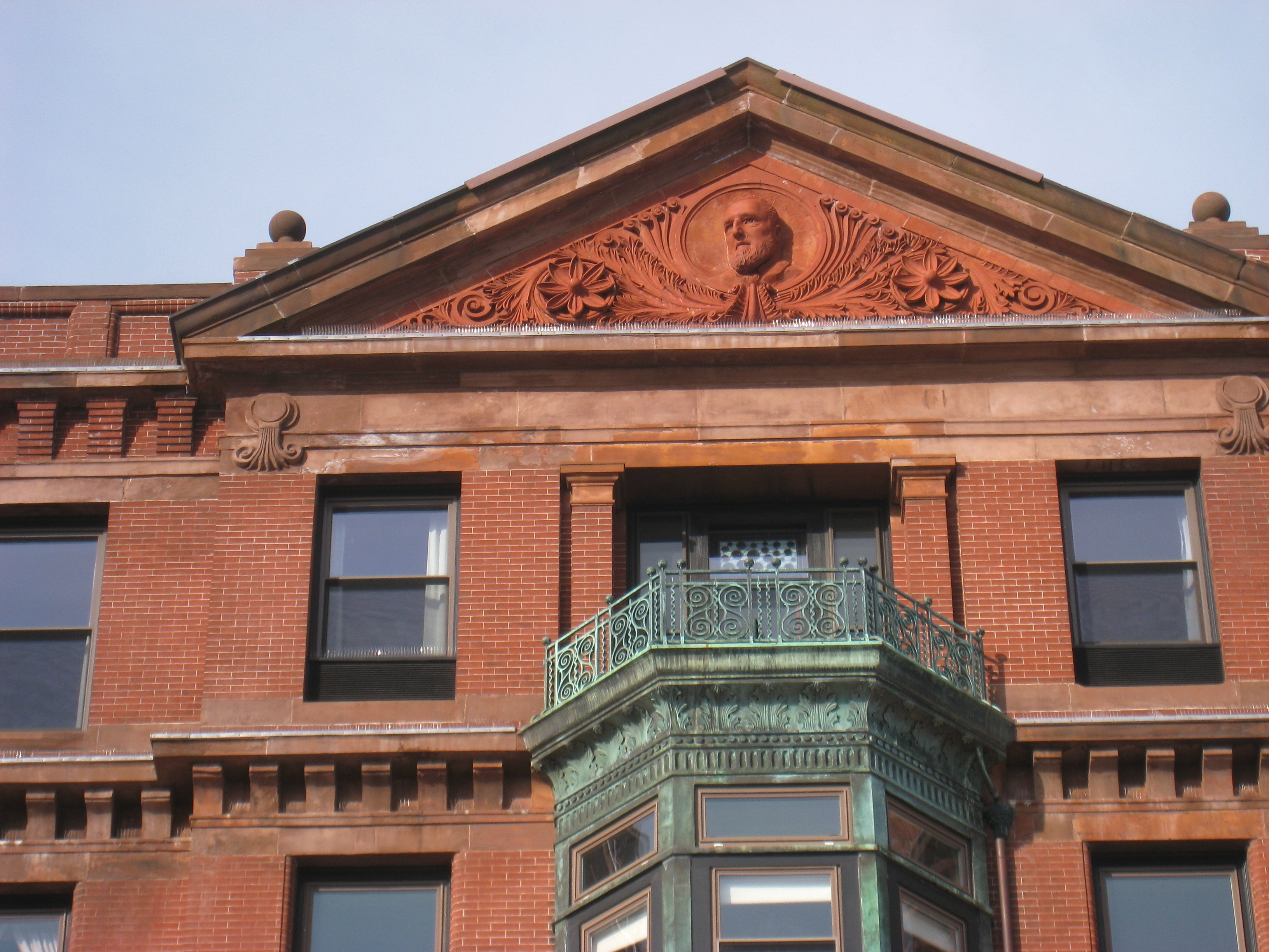 Rockingham Hotel in Portsmouth, New Hampshire, USA. Terra cotta portrait of Frank Jones, Portsmouth's 19th-century millionaire entrepreneur and celebrated alemaker, who once owned the hotel. I took this photograph.